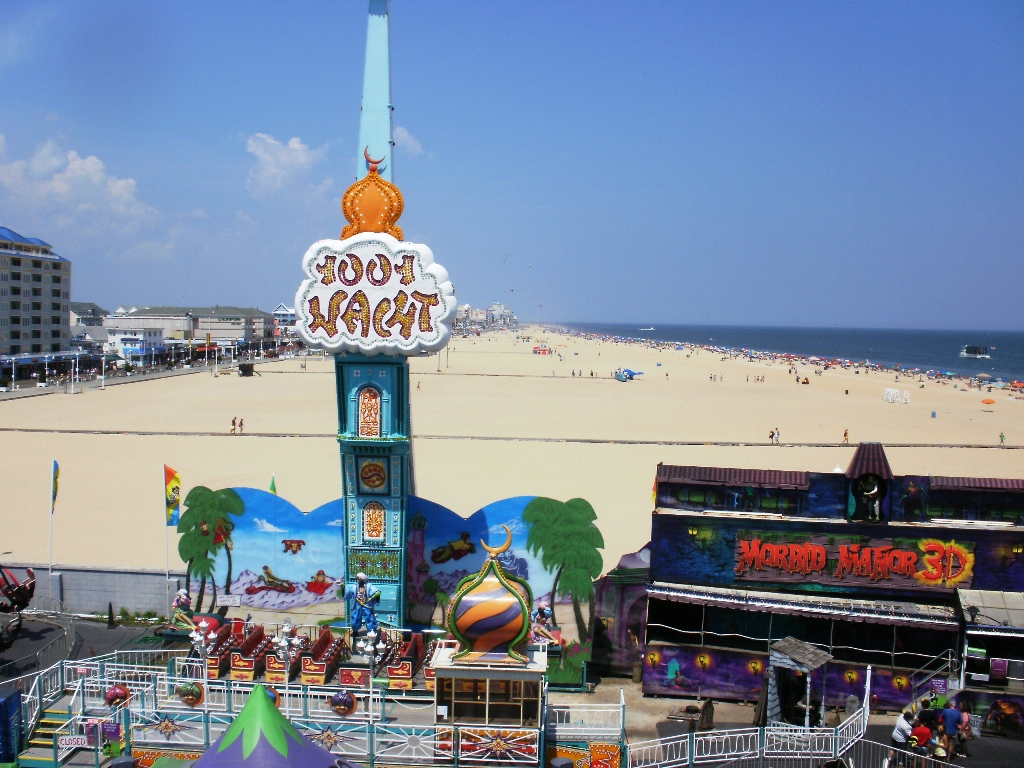 Jolly Roger at The Pier amusement park located directly on the famous Ocean City beach.